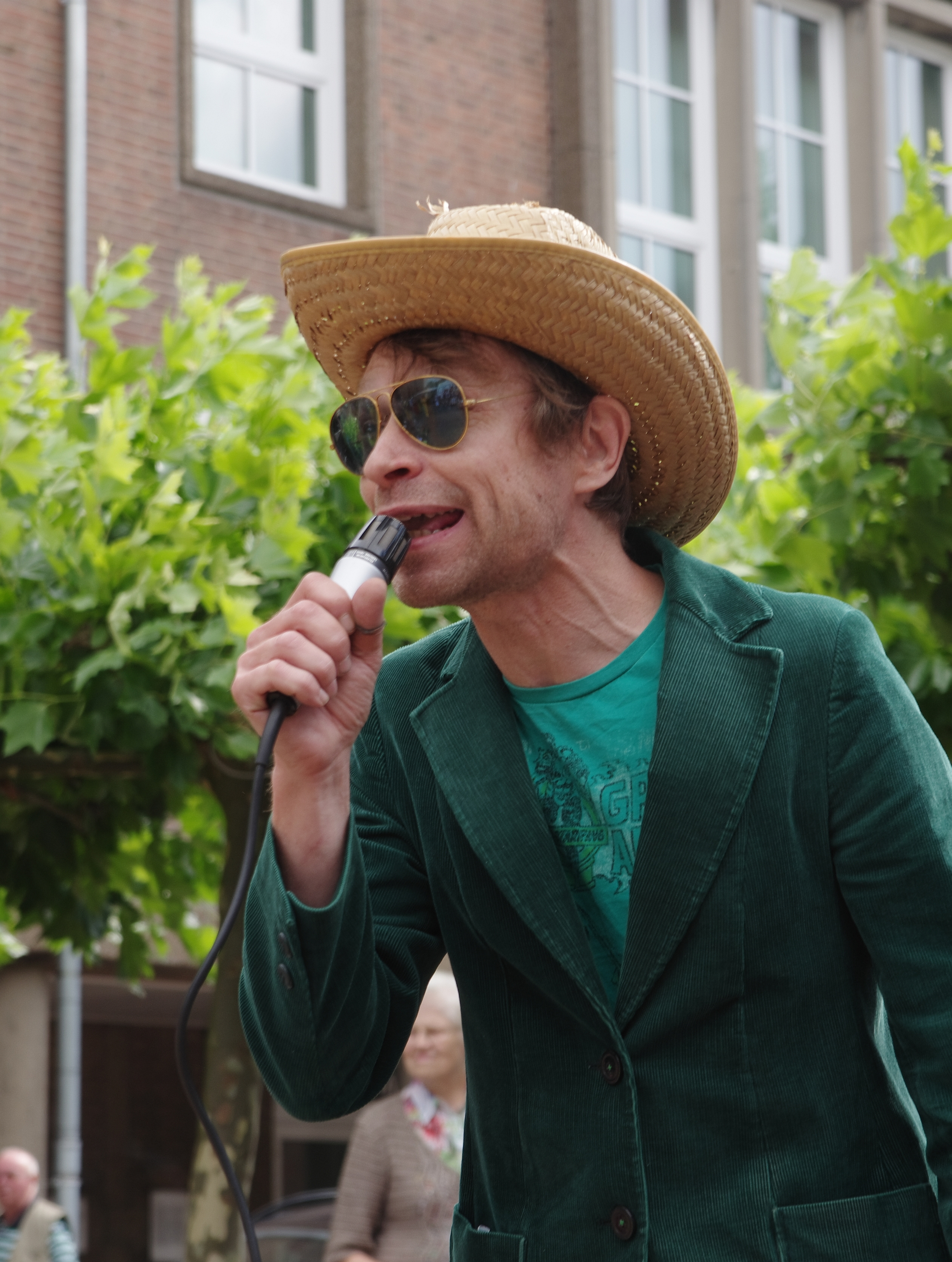 Orchestre Miniature in the Park at Haldern Pop 2013, performing at the market place in Rees